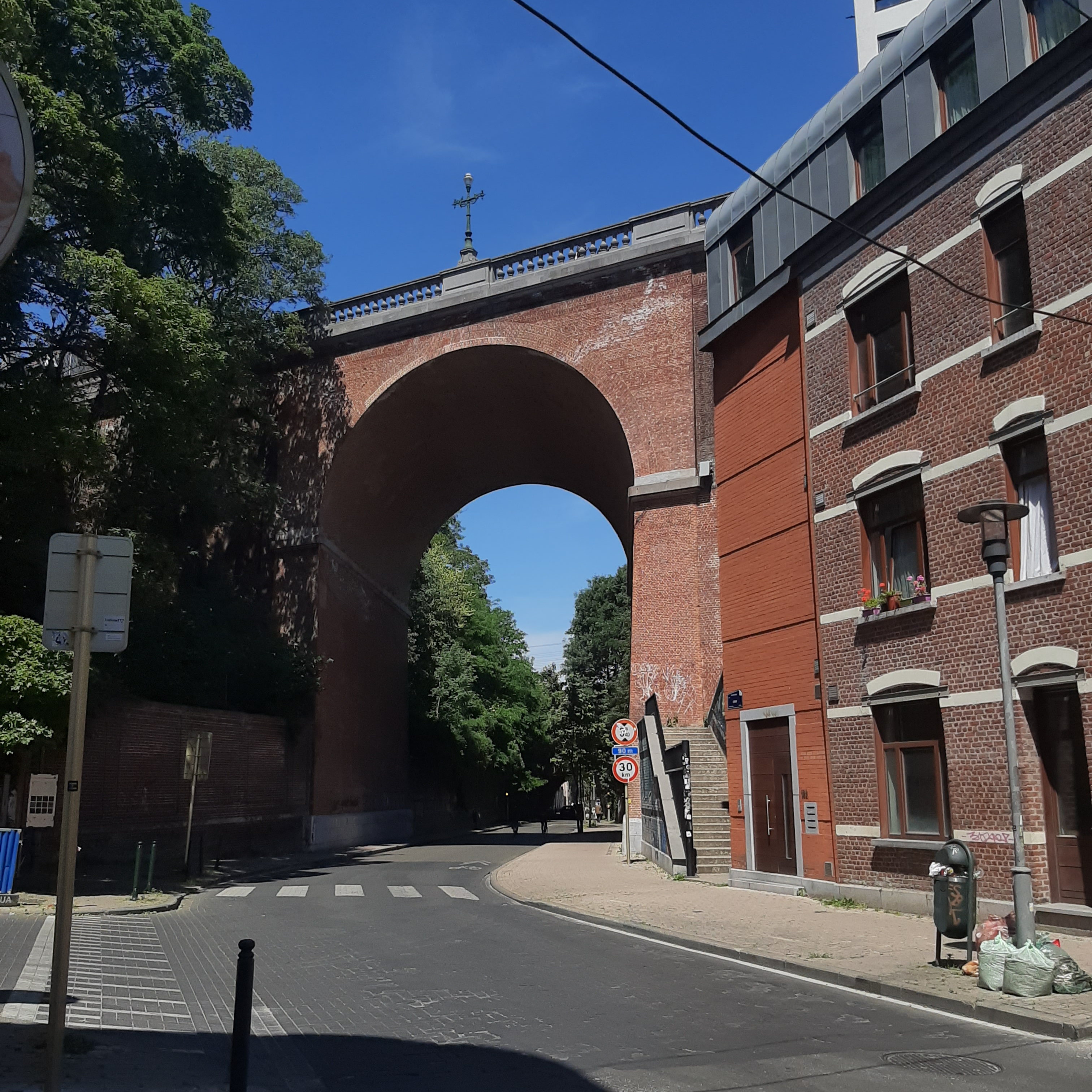 Avenue de la Couronne, viaduc enjambant la rue Gray, Ixelles commune de Bruxelles, 1880.